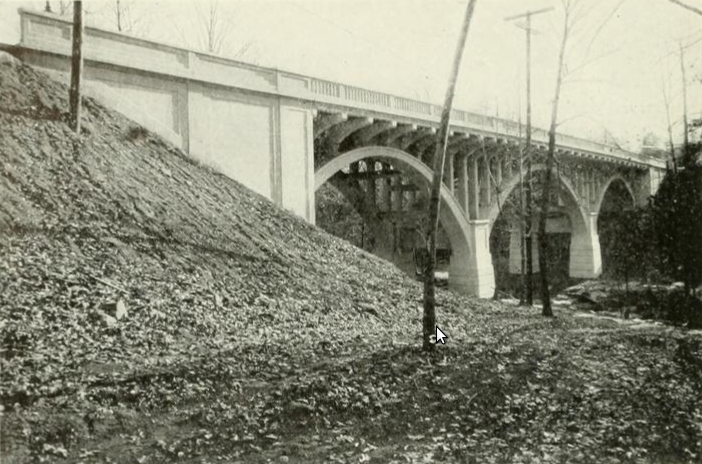 Black and white photograph of the Carroll Avenue Bridge in Takoma Park, Maryland shortly after it was completed in 1932. Appeared on page 40 of the Report of the State Roads Commission of Maryland, 1931-1934.